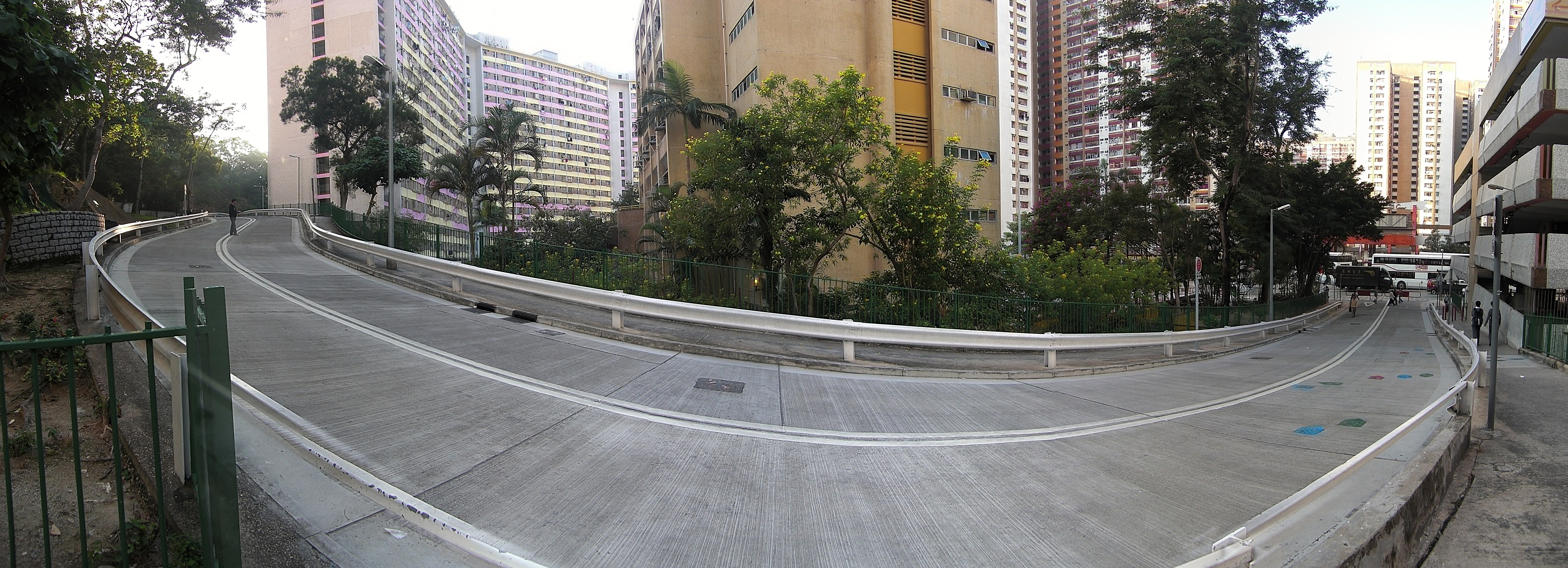 Looking towards the south from the Unnamed Road in Lok Wah Estate. A part of this road is seen.